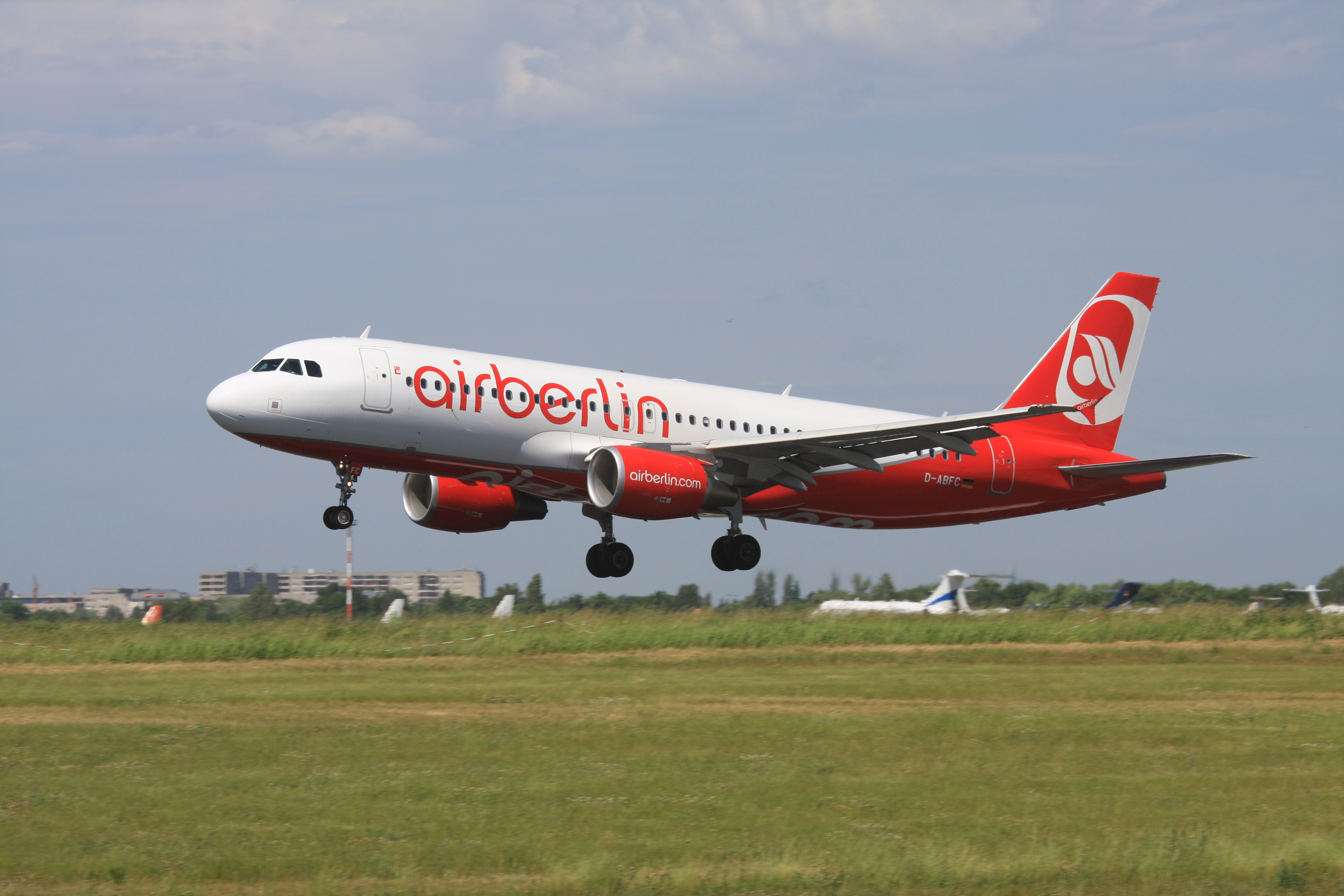 Airbus A320 of Air Berlin landing at Berlin Schönefeld Airport (picture taken during the International Air and Space Exhbition)